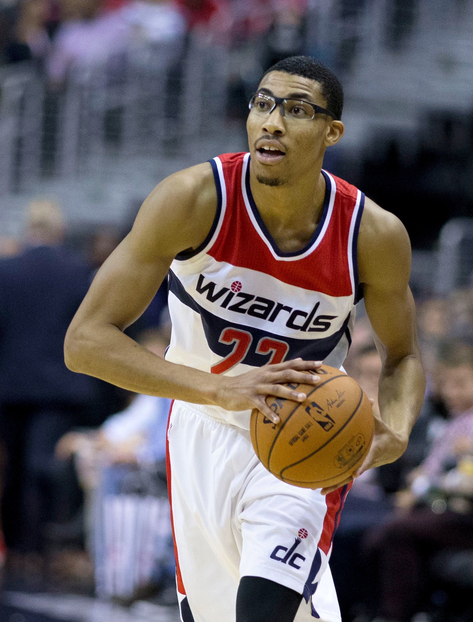 Pacers at Wizards 11/05/14